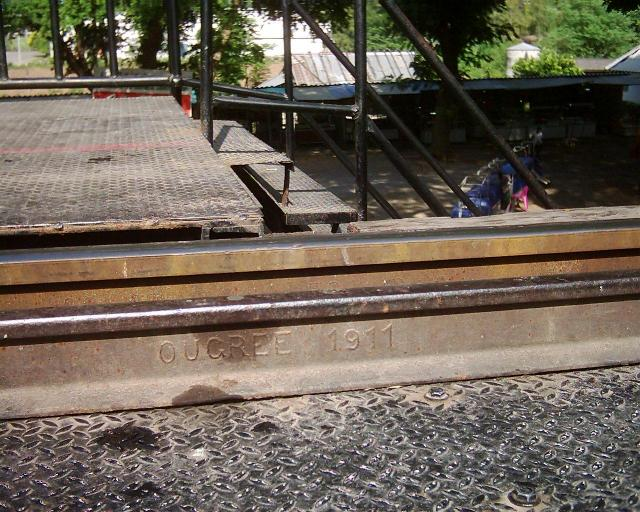 Railway on the River Kwai Bridge, Kanchanaburi, Thailand. Made in Ougrée (Belgium) by John Cockerill factories in 1911